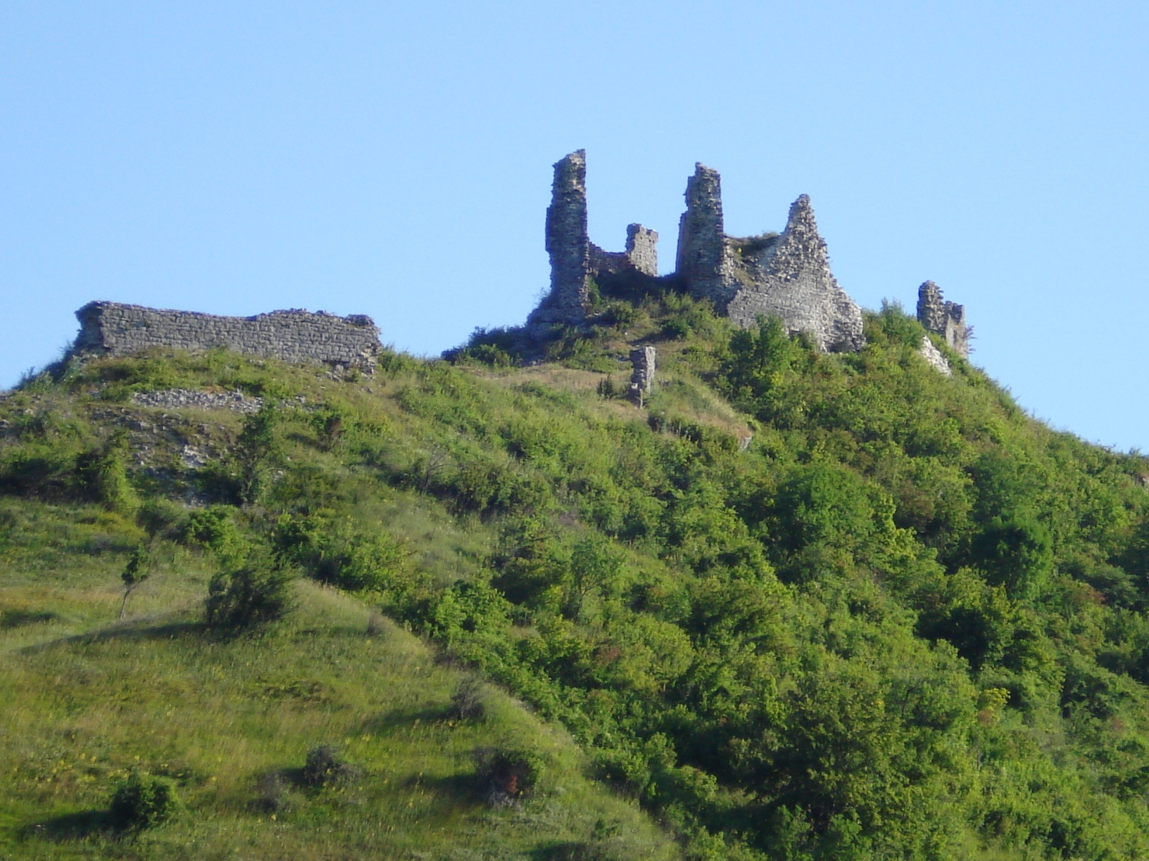 Ruins of Tržan Castle in Modruš (Croatia) - southwest view